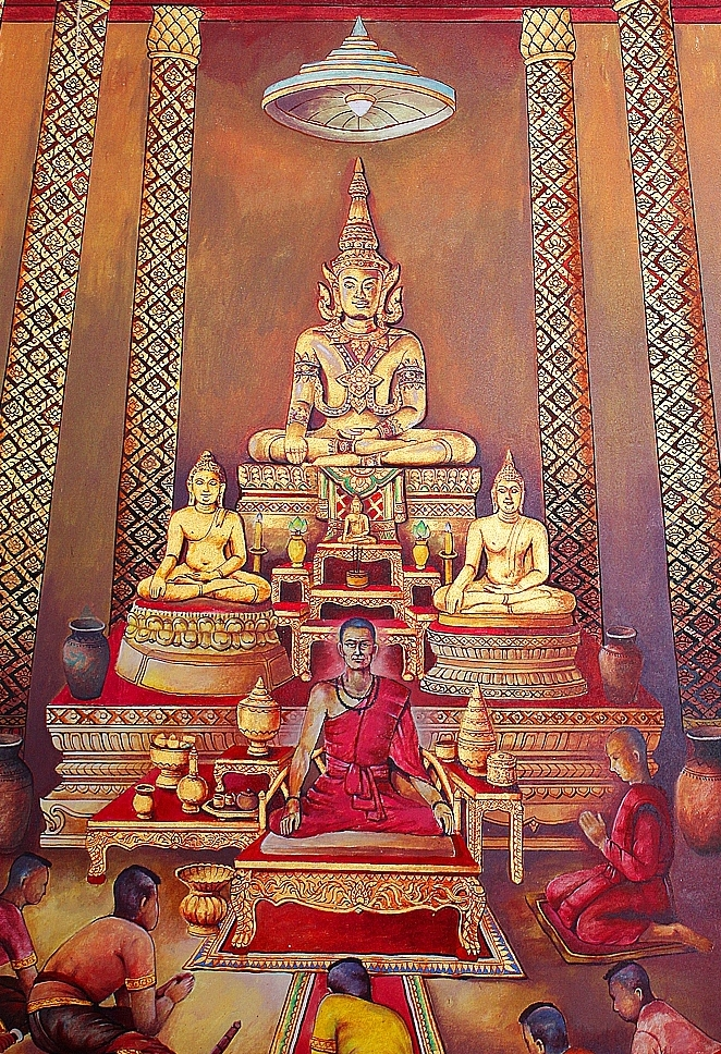 Wat Phra Fang temple celebrationLocation: Wat Phra Fang (Wat Phrafangsawangkabureemuneenat) Ban Phra Fang, Pha Juk subdistrict, Mueang Uttaradit, Uttaradit Province, Thailand.